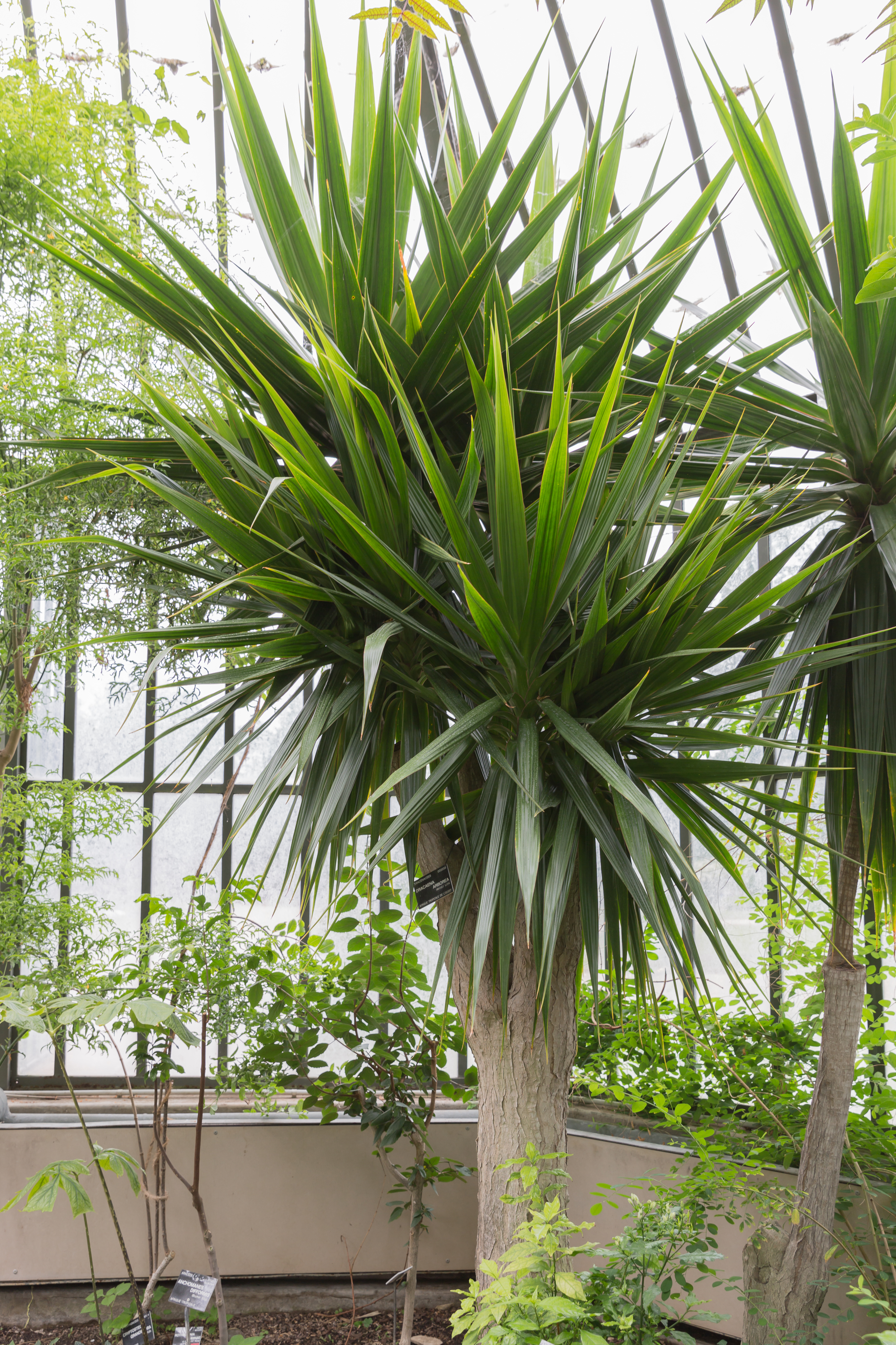 Dracaena arborea in jardin botanique de Lyon, France.